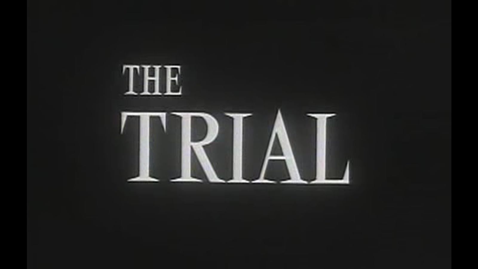 Starting frame from the film "The Trial"